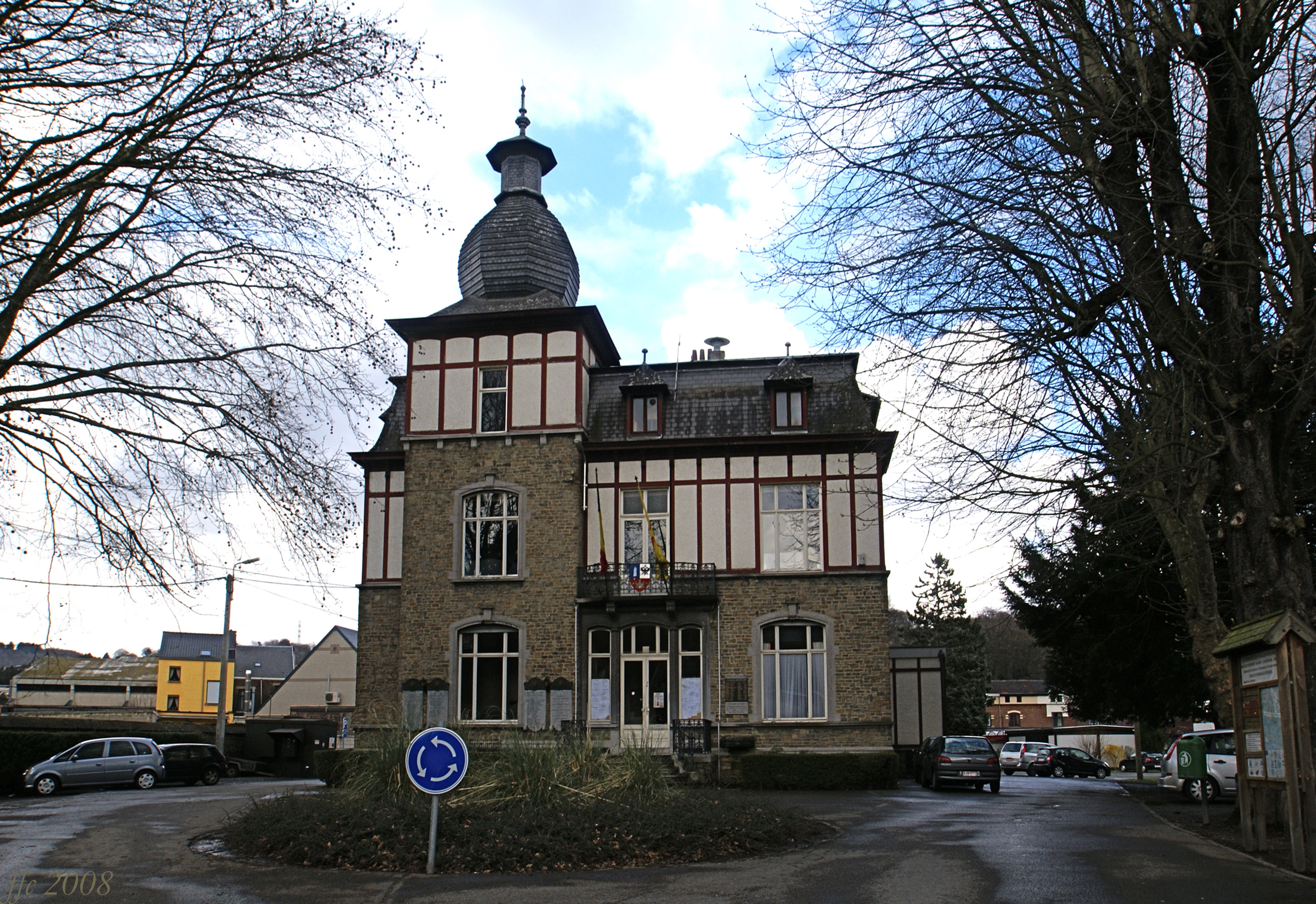 Vaux-sous-Chèvremont (Belgium): Old Town Hall